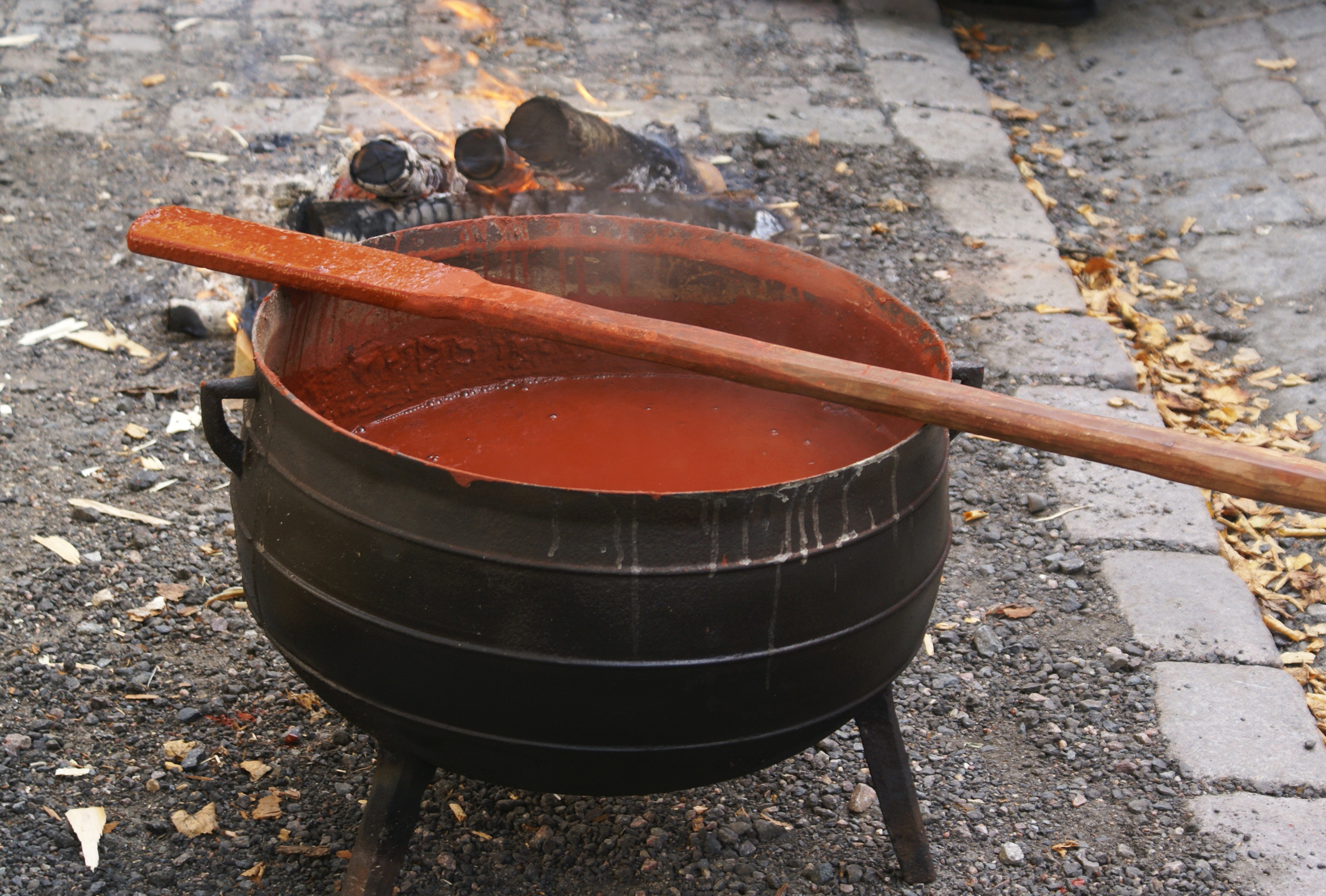 Falu red